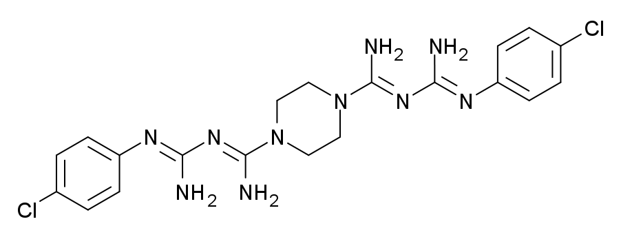 i drew this anyone can use it